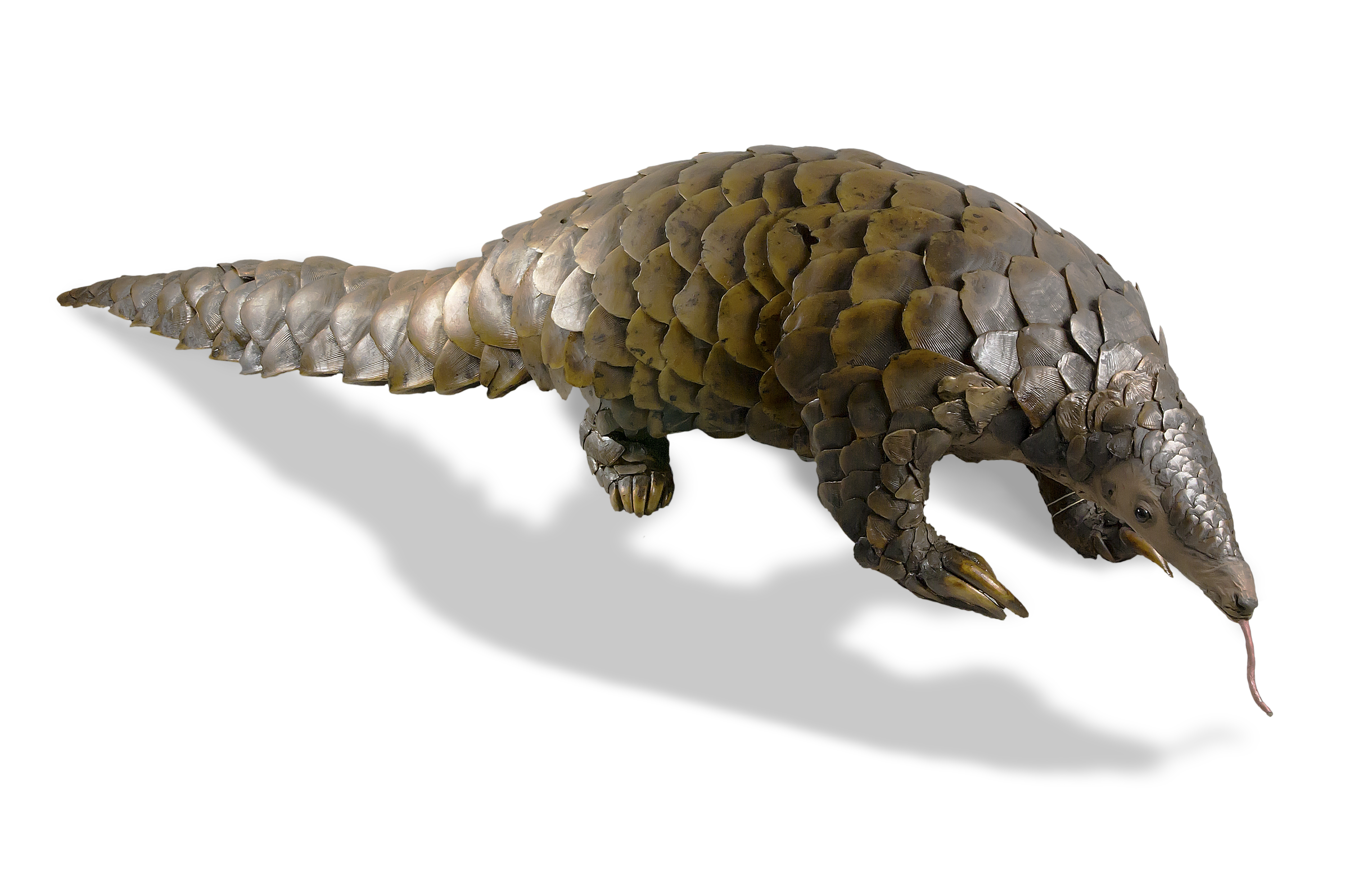 taxidermied specimen, ground pangolin, size : 90 x 22 x 22 cm